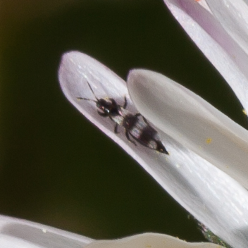 Thysanoptera in a flower. Valverde. Vilarromarís. Oroso. Galicia, Spain